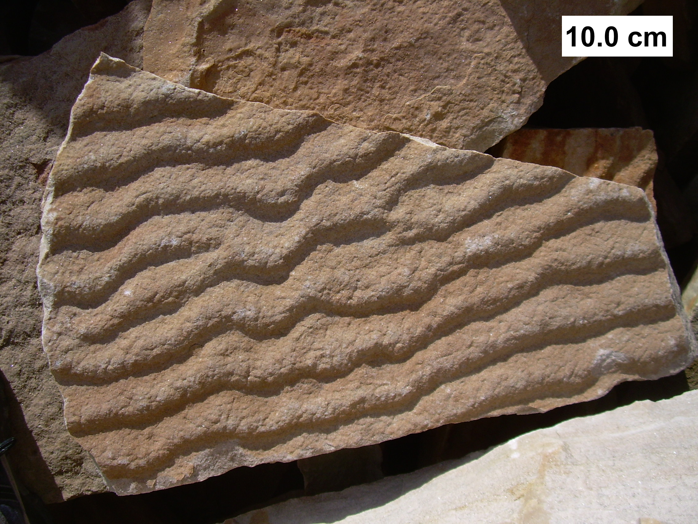 Blister-like microbial mat on ripple-marked surface of a Cambrian tidal flat; Elk Mound Group; Blackberry Hill, Wisconsin; photograph originally published in K.C. Gass, 2015. Solving the Mystery of the First Animals on Land: The Fossils of Blackberry Hill. Siri Scientific Press, Manchester, UK.